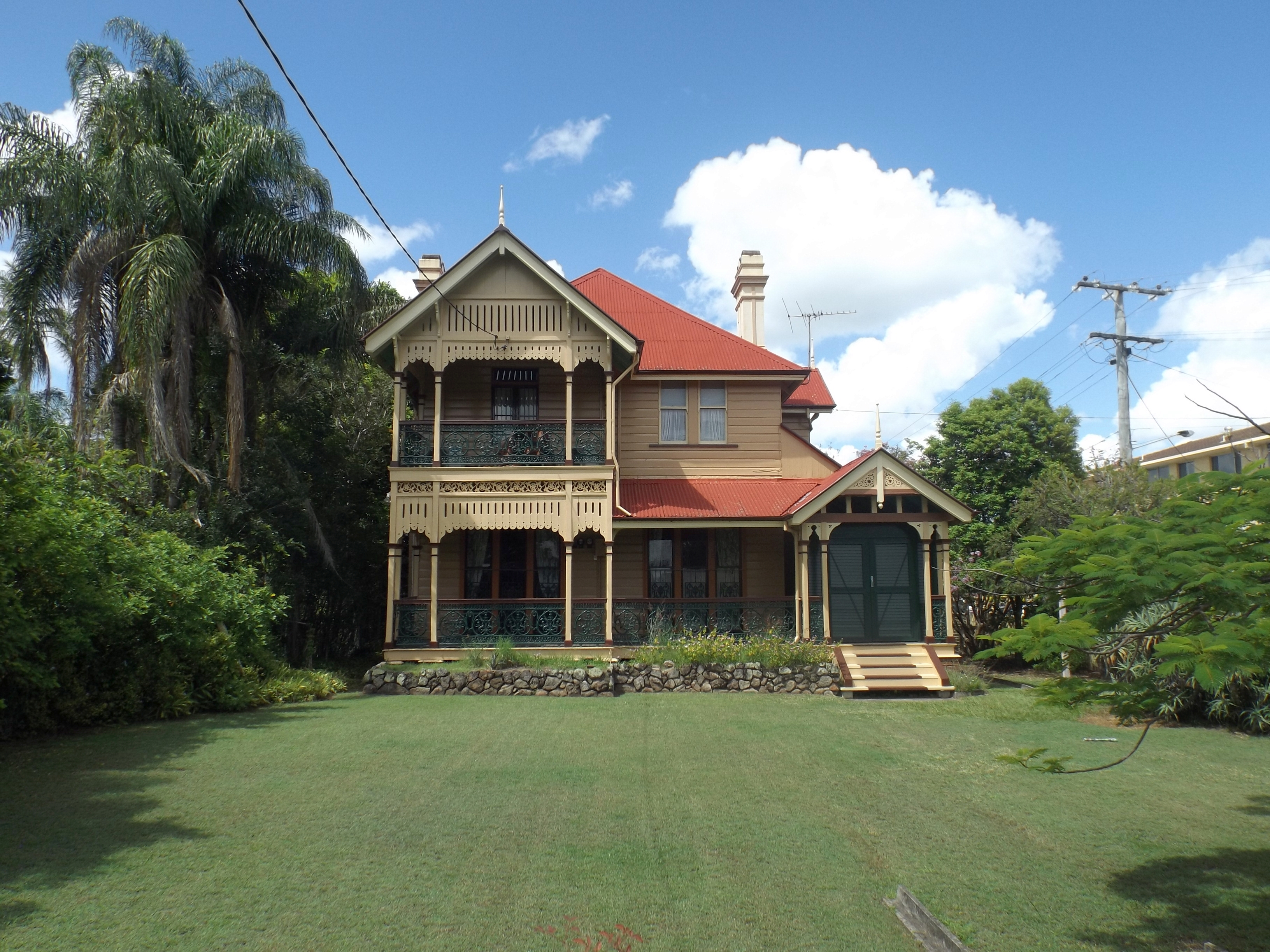 Photo of residence known as Nassagaweya and front lawn at West End, Brisbane, Queensland, Australia.